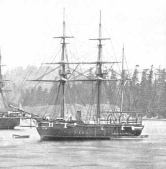 Photograph of British corvette Emerald class corvette HMS Opal (left) and Fantome class sloop HMS Fantome (right).